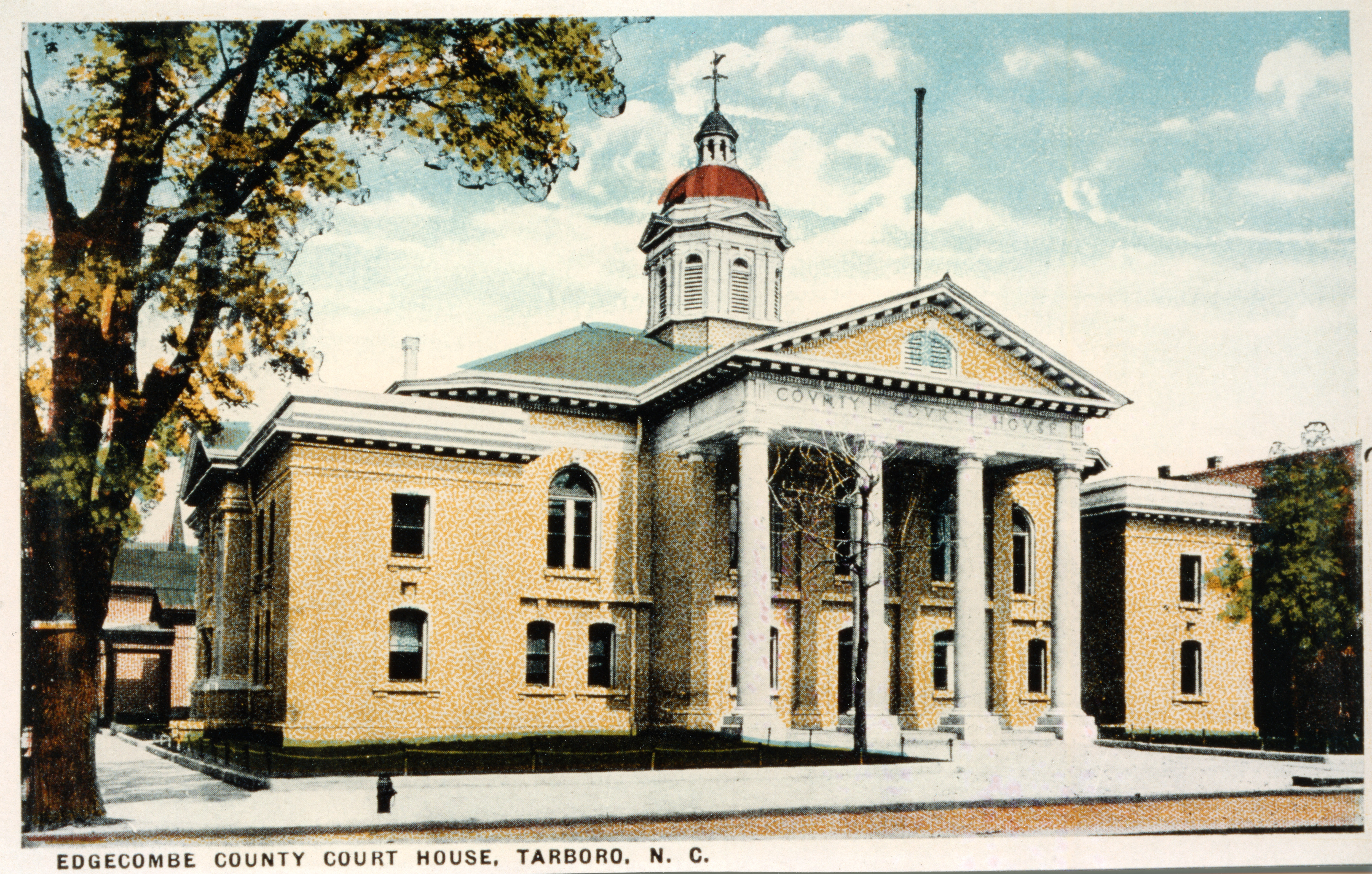 Edgecombe County Courthouse, Tarboro, NC, no date (postcard is c.1920-1950), General Negative Collection, State Archives of North Carolina.